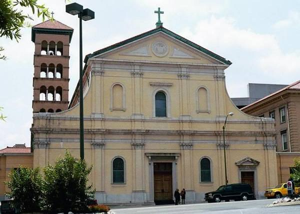 I took this photograph of the Cathedral of the Incarnation in Nashville, Tennessee in October 2009.